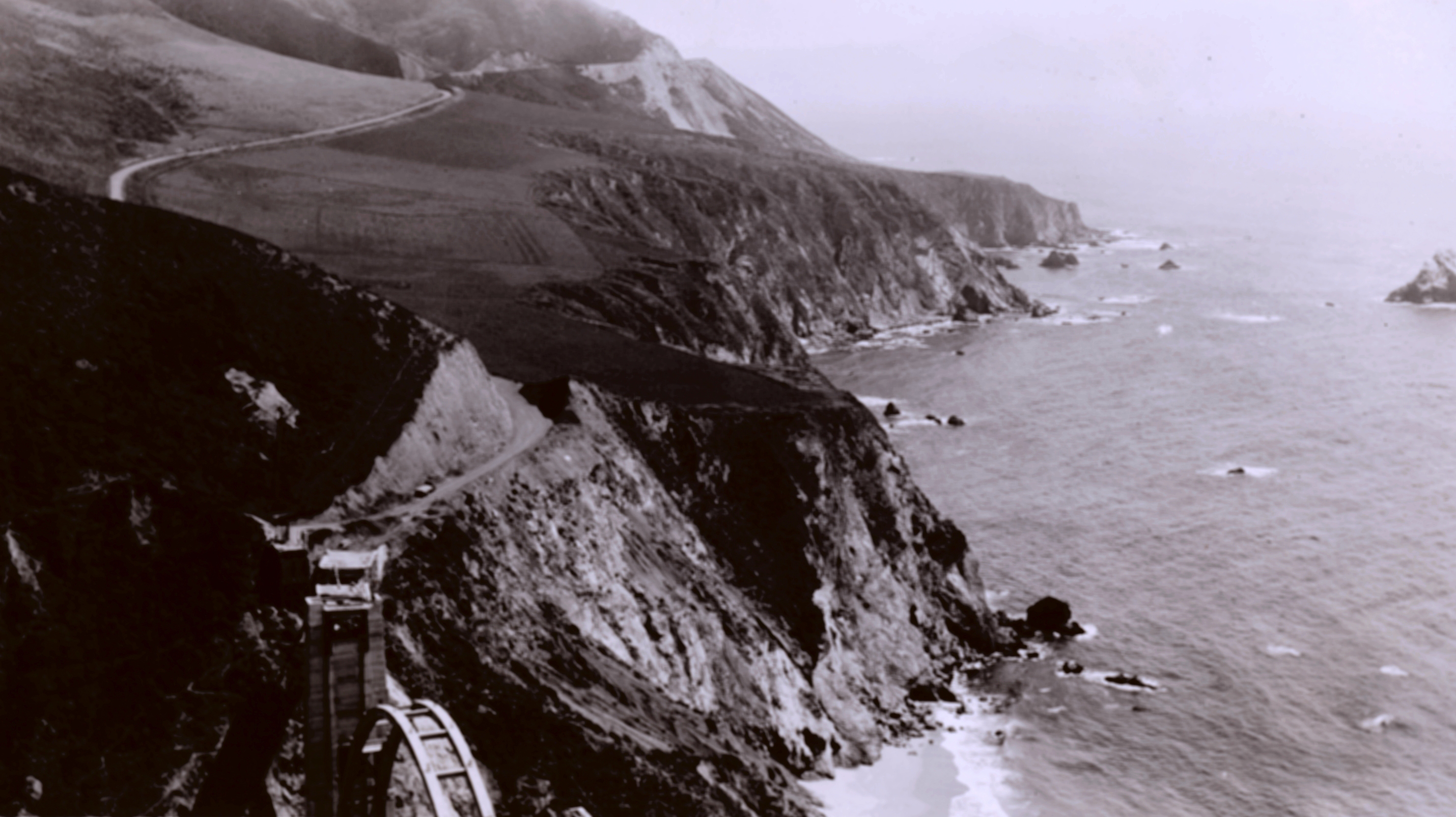 Bixby Canyon Bridge under construction on California Coast Highway 1. After completion, this bridge is now one of the most beautiful bridges in the United States. [original caption]